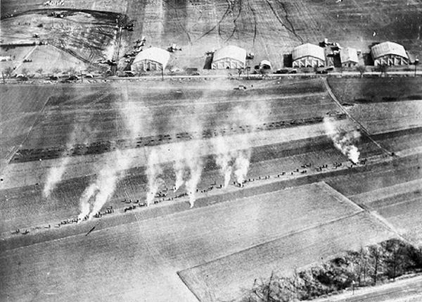 May-en-Multien Aerodrome showing Bengel Flares